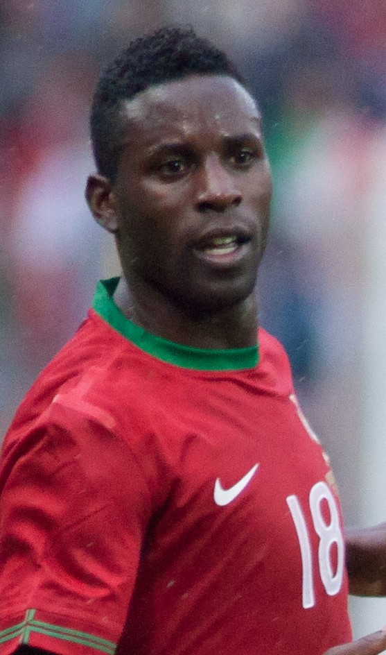 Croatia vs. Portugal, 10th June 2013